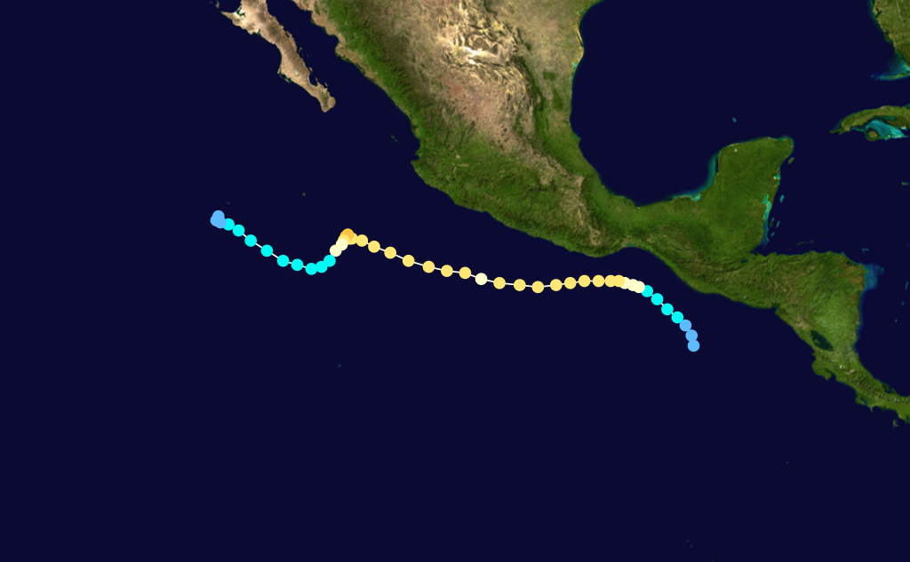 Hurricane Lester (1998) track. Uses the color scheme from the Saffir-Simpson Hurricane Scale.